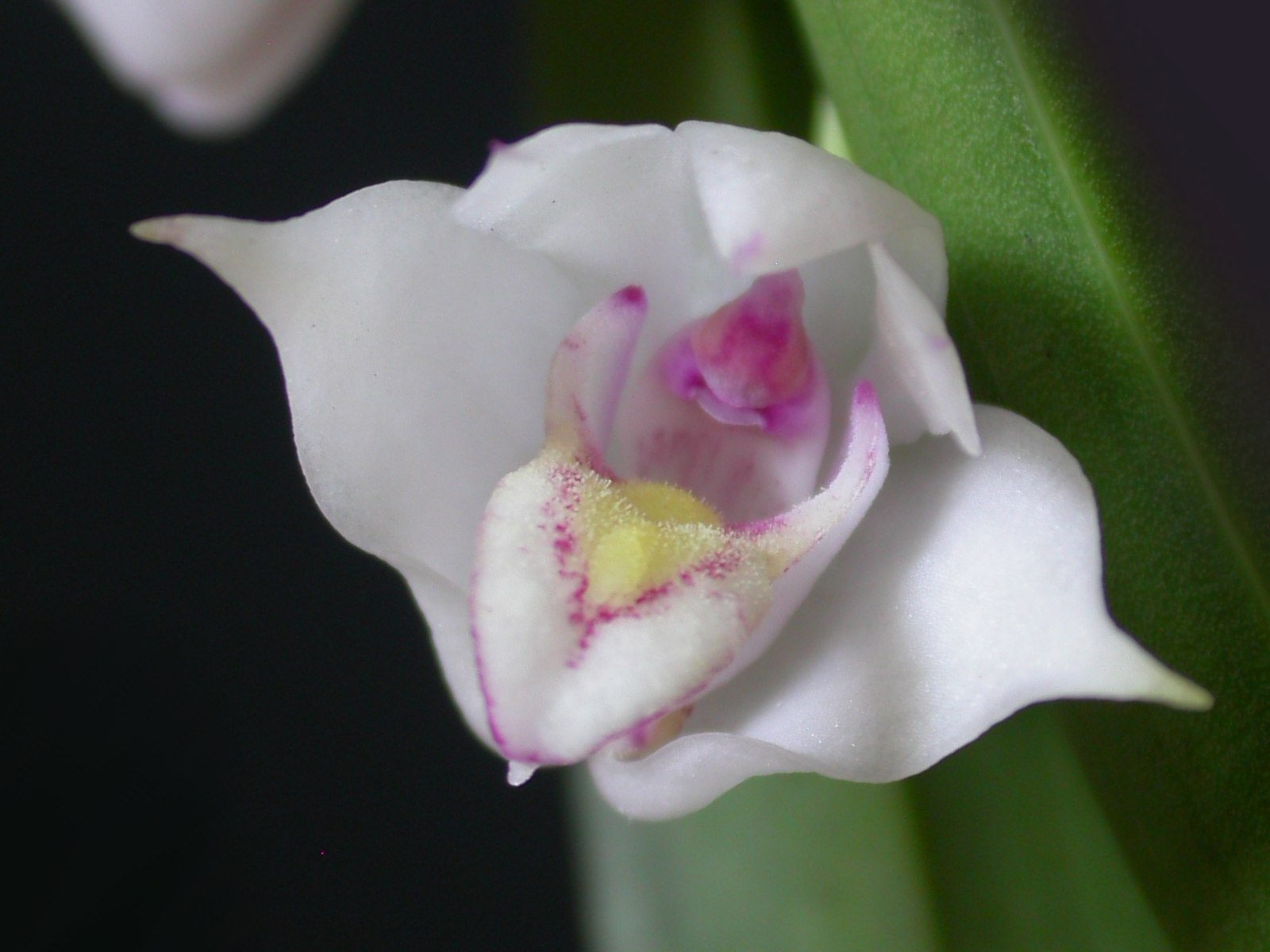 Polystachya subdiphylla